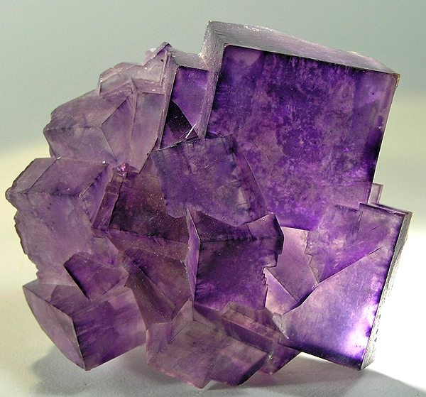 Fluorite Locality: Taourirt, Taourirt Province, Oriental Region, Morocco (Locality at ) Size: 5.6 x 5.5 x 2.4 cm. This fine specimen is from a very short-lived find in an incredibly inhospitable locality in the Sahara Desert. After getting specimens out for awhile, the two guys who found them eventually gave up, since the specimens were isolated and not in pockets with lots of specimens, so that it just took too much work in awful conditions to make it worthwhile. They have a smooth silkiness to them, and a very different-looking and gorgeous glowing purple color.